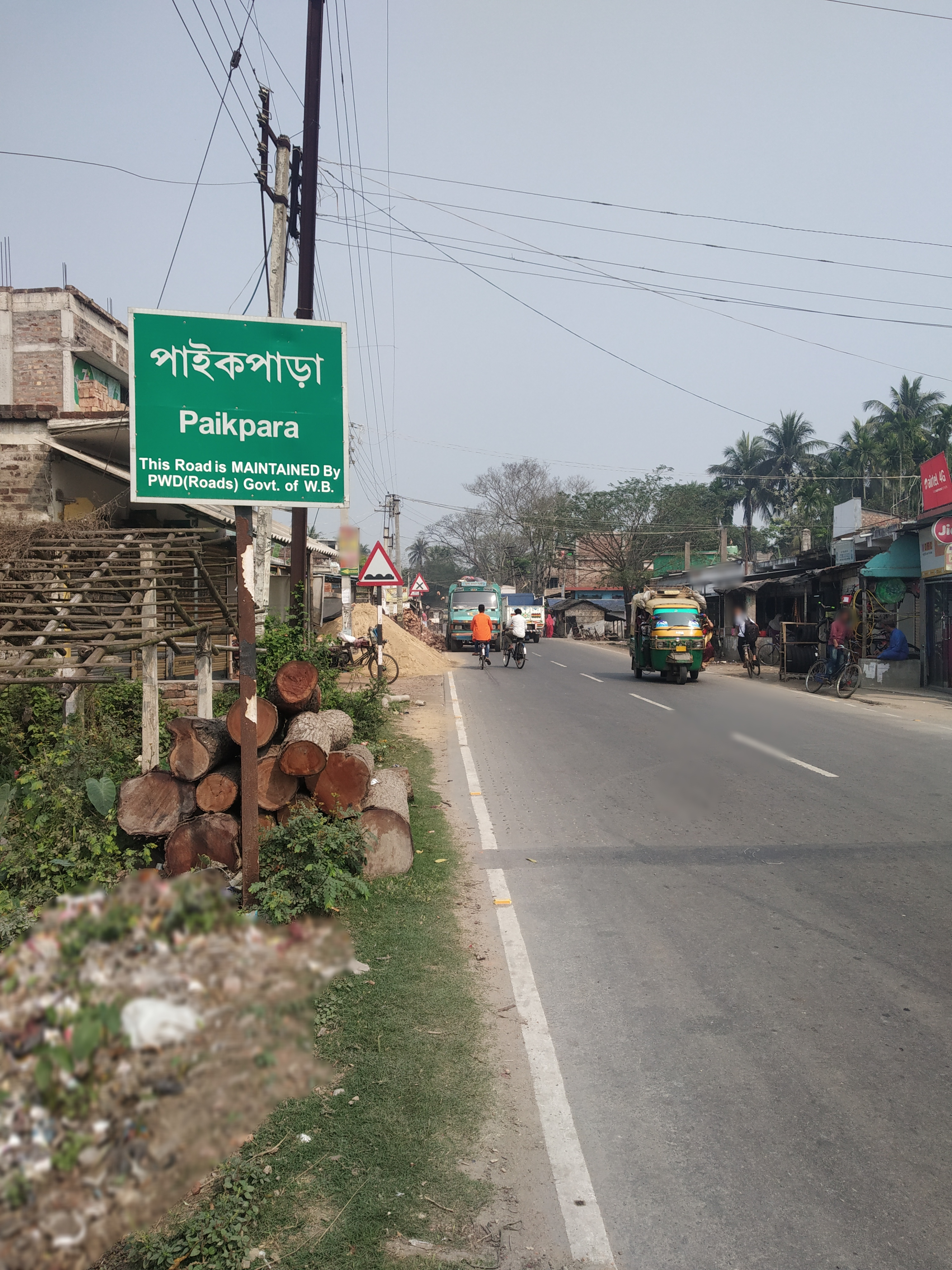 paikpar basirhat